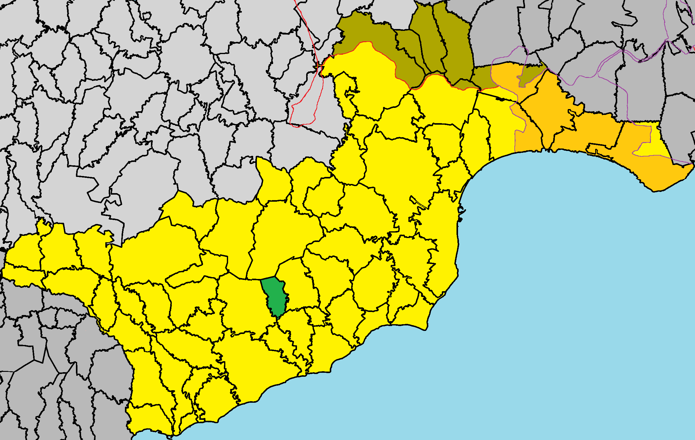 Menogeia in Larnaca District.